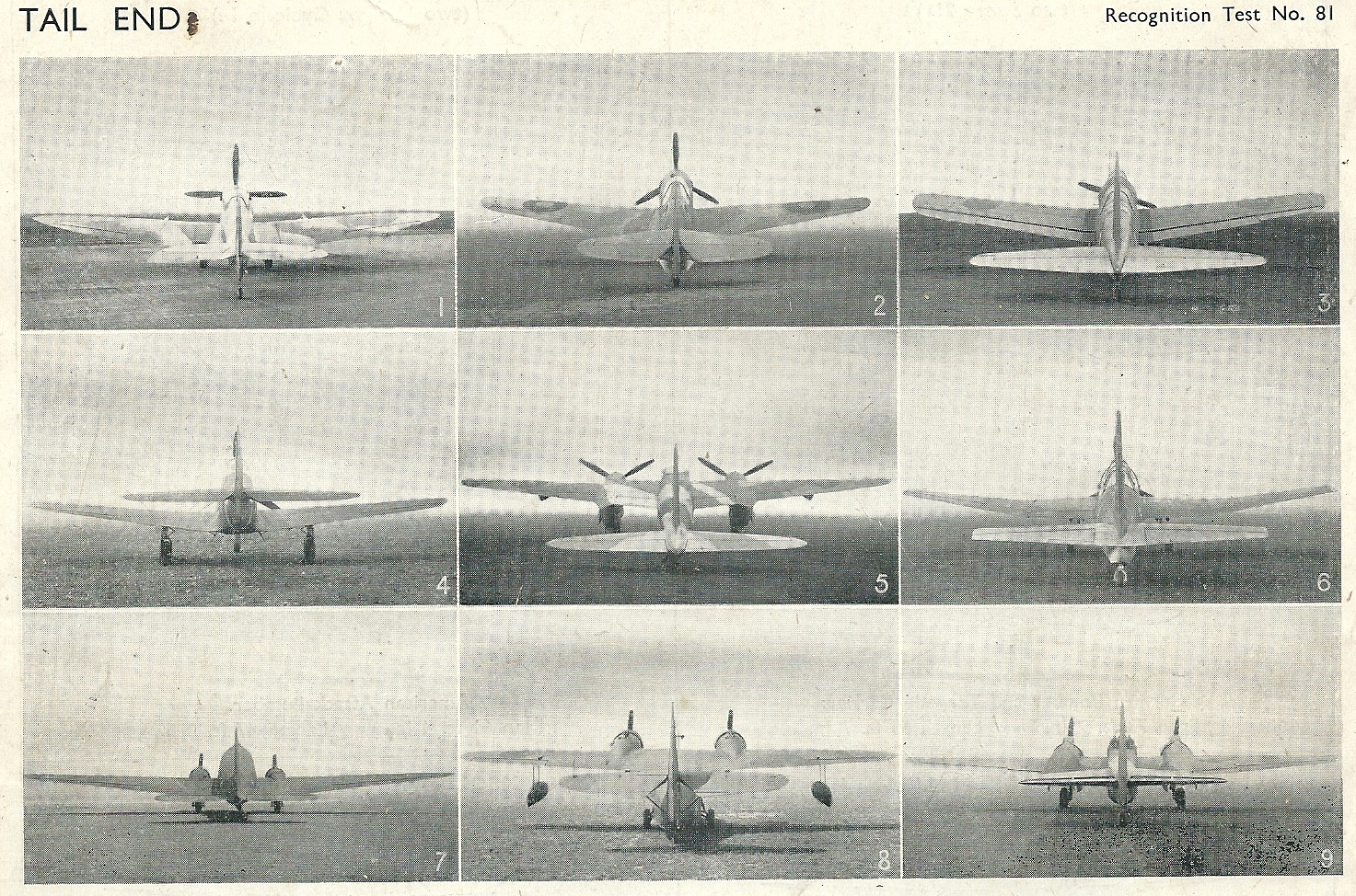 Tail End, a photographic aircraft recognition test from Aircraft Recognition. Each photograph is a rear ground view of a World War II aircraft. The aircraft depicted in this cartoon are: 1) Supermarine Spitfire mark IX; 2) Curtiss Kittyhawk; 3) Vought Kingfisher; 4) Bell Airacobra; 5) de Havilland Mosquito; 6) Vultee Vengence; 7) Douglas Dakota; 8) Grumman Goose; 9) Martin Baltimore